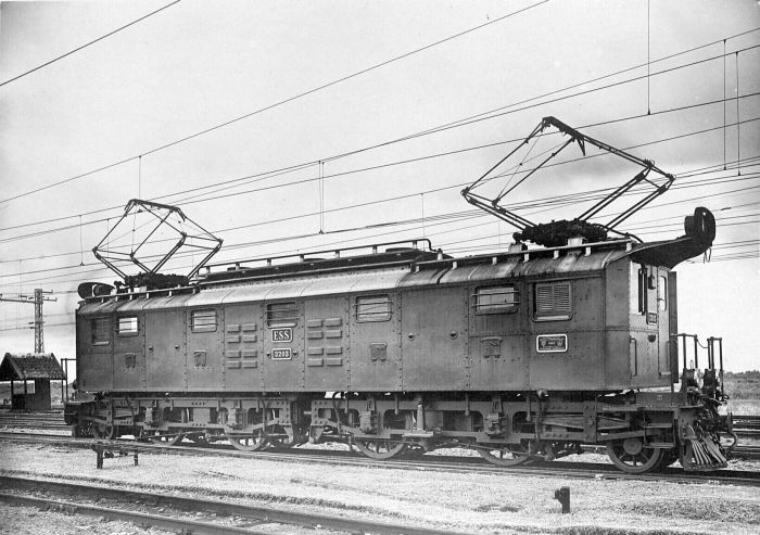 An electric locomotive of the State Railways. [Per the Japanese Wikipedia article, this is an ESS (Electrische Staats Spoorwegen) 3200].